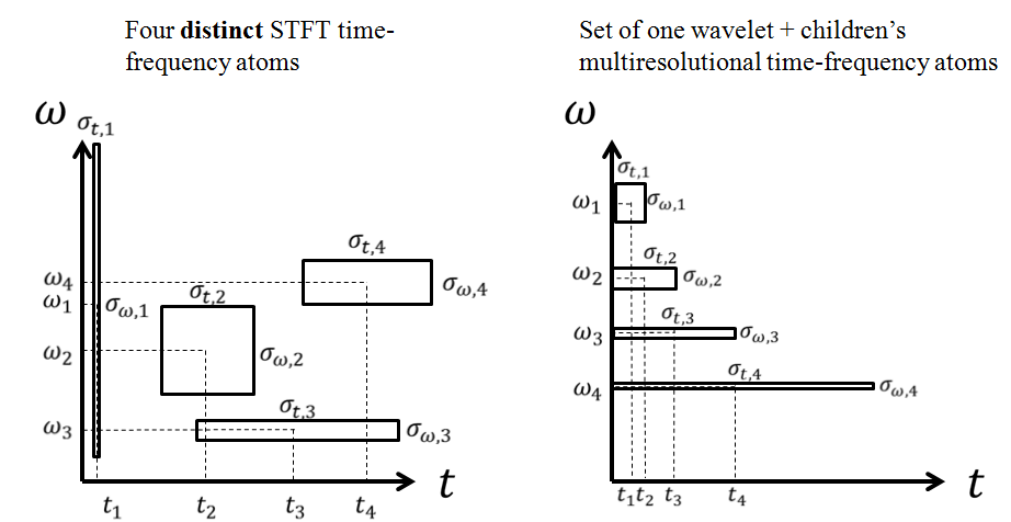 A picture of time-frequency atoms of the short-time Fourier transform (STFT) versus the multiresolutional properties offered by the wavelet transform.